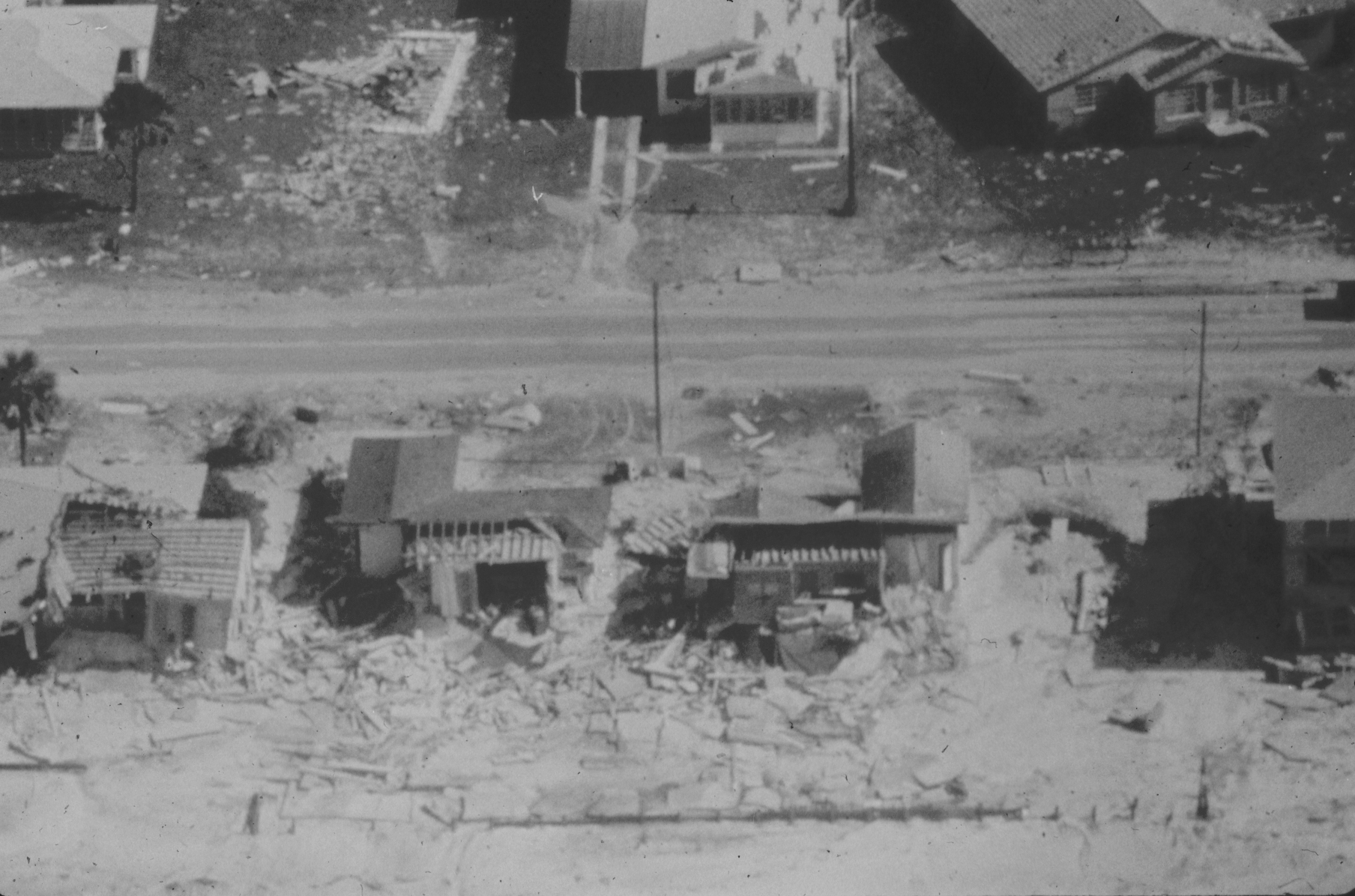 Damage in the Florida Panhandle from Hurricane Eloise, a Category 3 tropical cyclone.